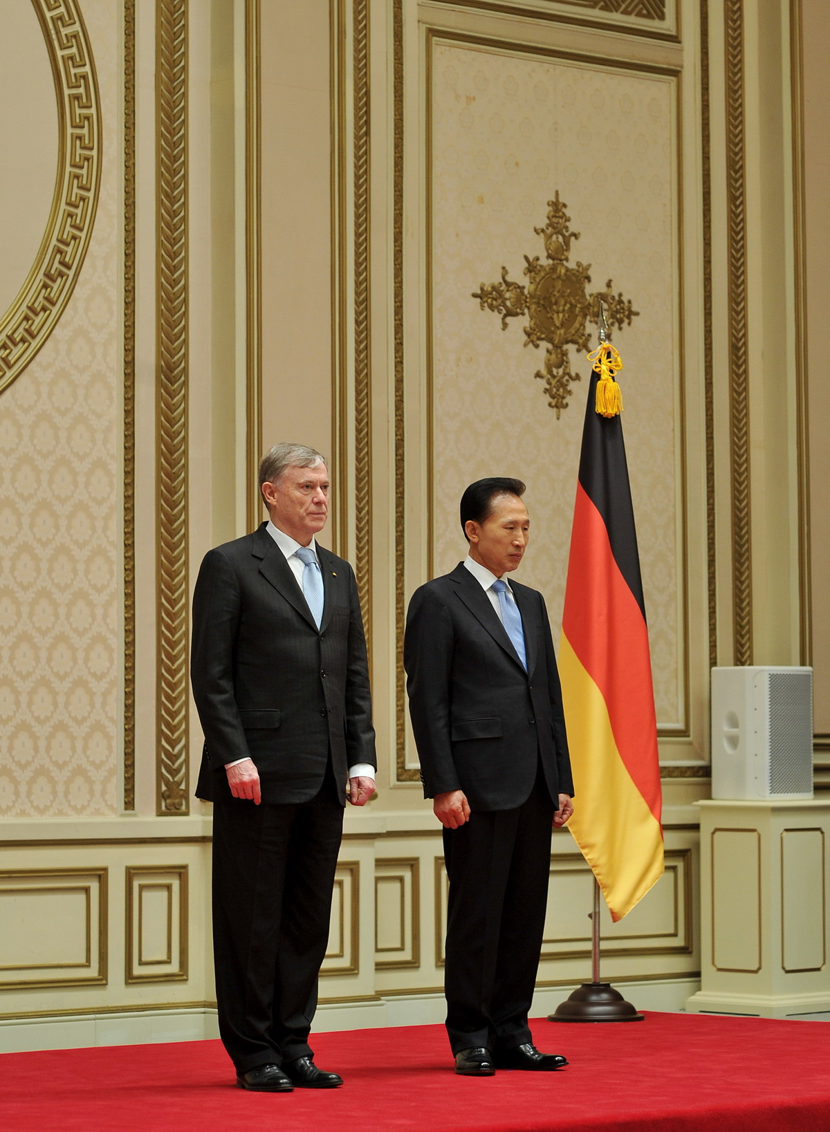 President Lee Myung-bak met with his German counterpart Horst Köhler at Cheong Wa Dae on Feb. 8 for a bilateral summit. German President Horst Kohler is on a state visit to Seoul from Feb. 7 to 10, 2010.